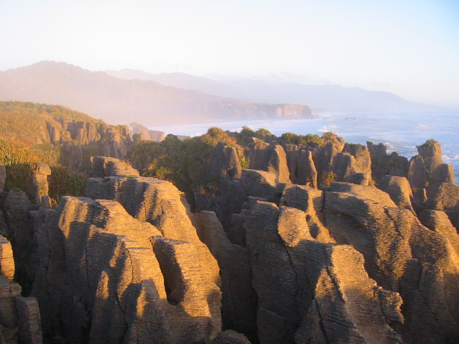 The pancake rocks near Punakaiki, New Zealand. Photo taken by User:yogi_de at dusk on 2004-07-08.